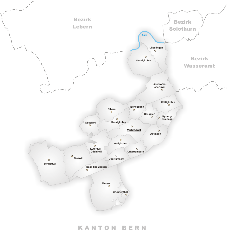 Municipalities of District Bucheggberg